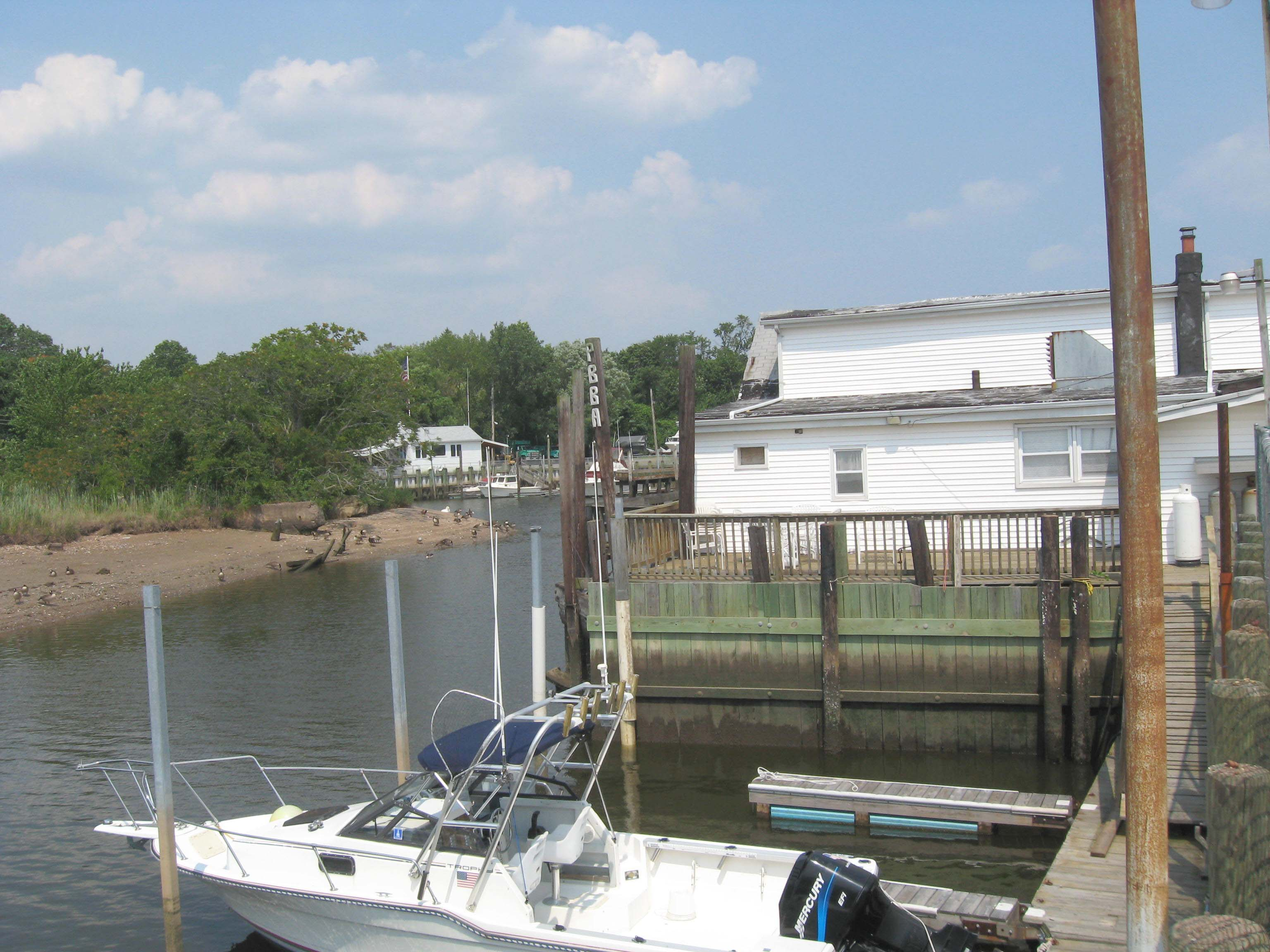 Looking northeast, up Lemon Creek, Staten Island on a sunny midday